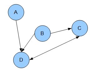 Rick Giuly